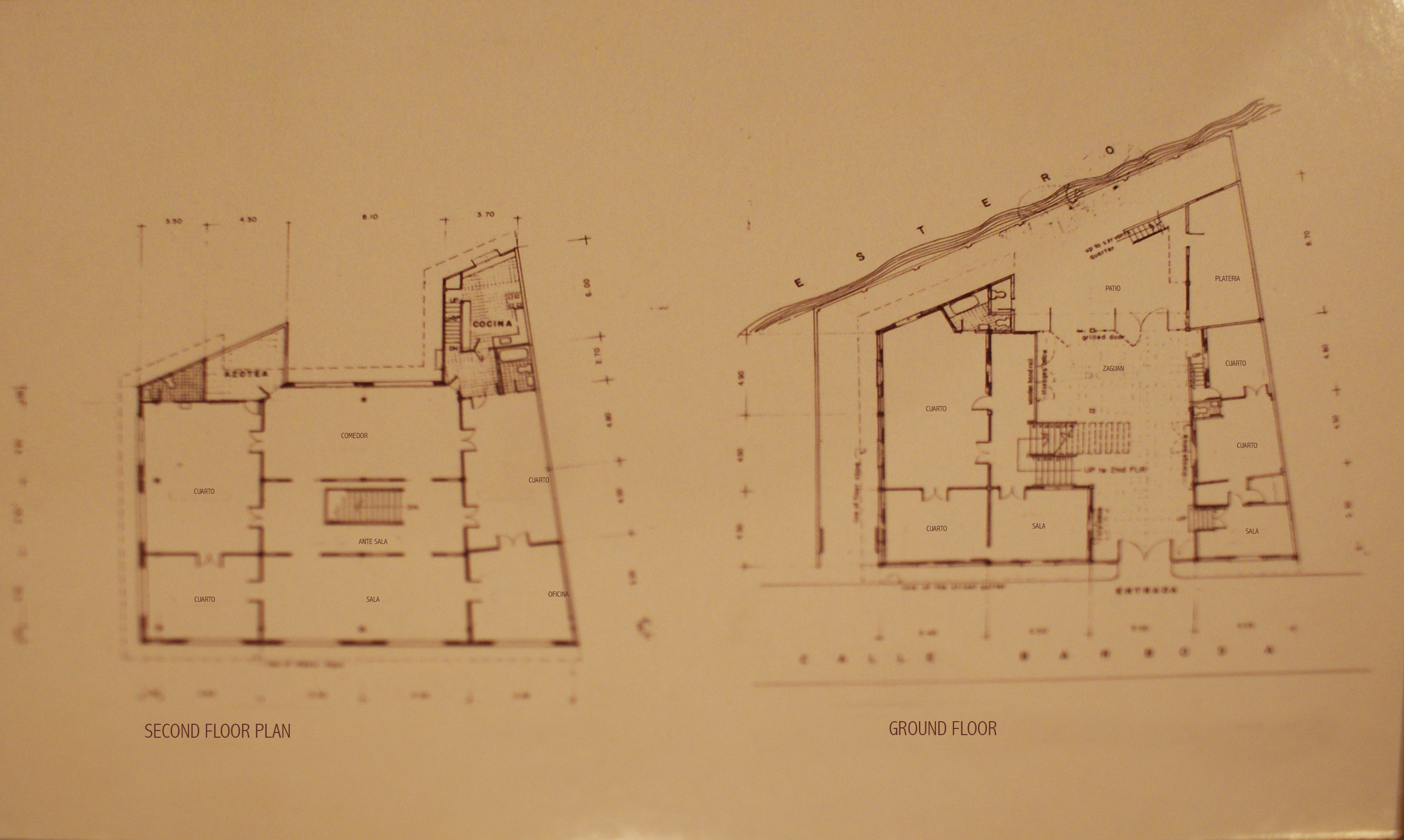 Postcard printed by Bahay Nakpil-Bautista